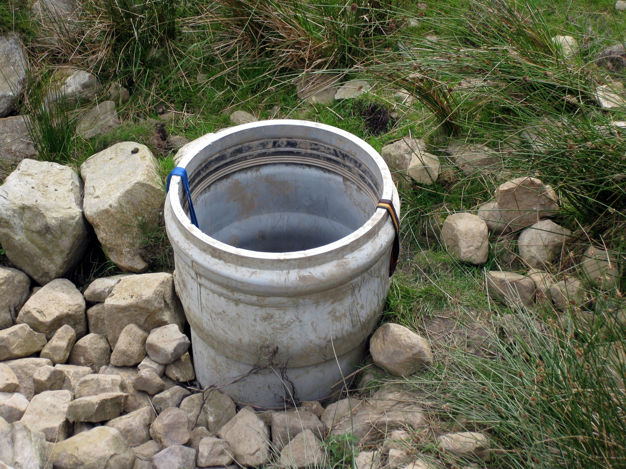 This is the entrance to Boxhead Pot, a limestone cave on Leck Fell in Lancashire, England. It leads into the Lost Johns' Cave system. The pipe is the top of a 34 metre shaft.